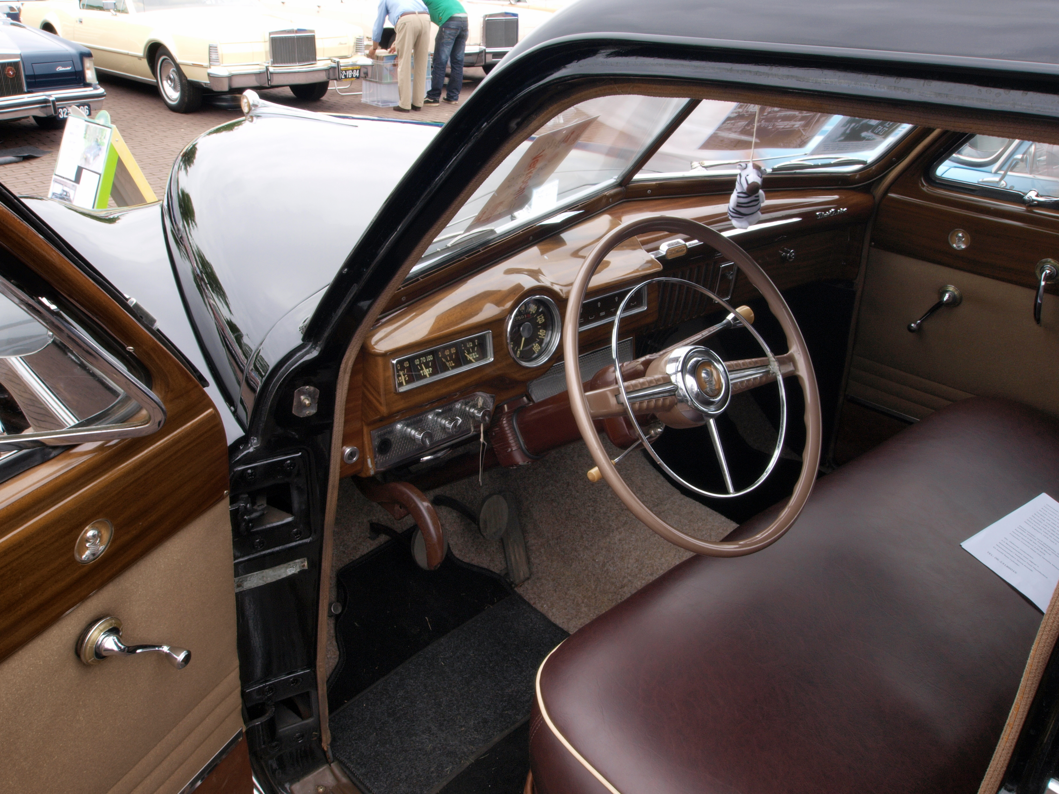 Photographed at the 2010 Autotron Classic car meeting, Rosmalen, The Netherlands. OLYMPUS DIGITAL CAMERA